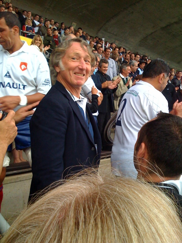 Mr JPR Williams at the France vs British Lions Classic match in Mont de Marsan